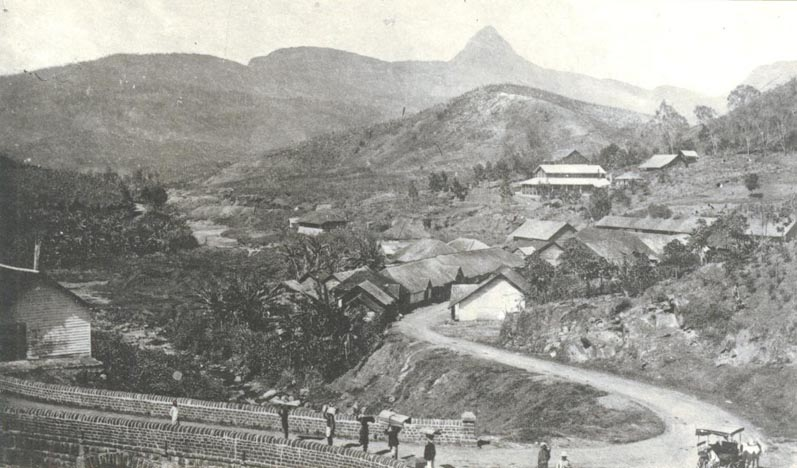 19th century photograph of Samanala Kanda from Maskeliya සිංහල: 19 සියවසේදී සමණළ කන්දේ ඡායාරූපයක්